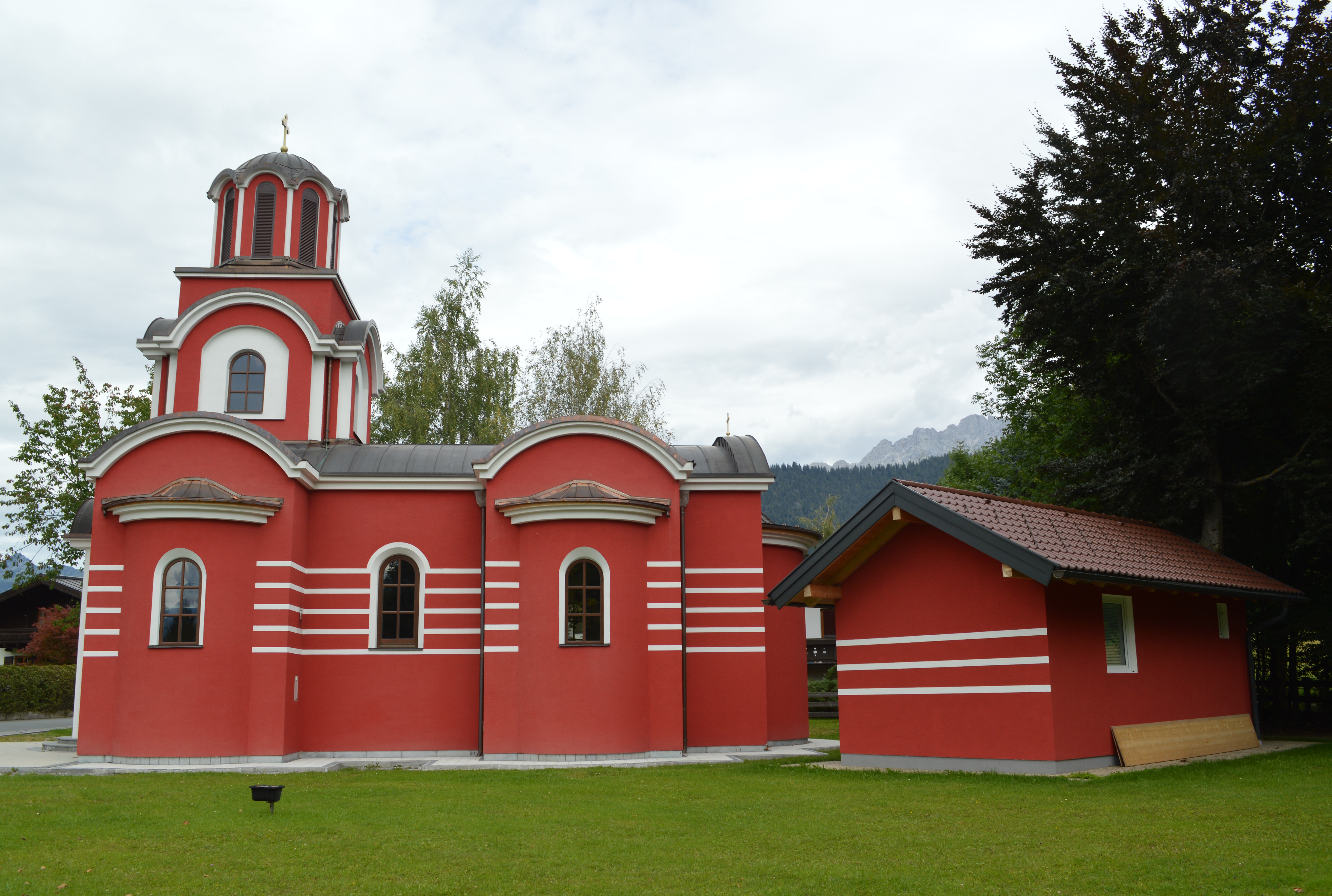 Serbic-orthodox church in Saalfelden